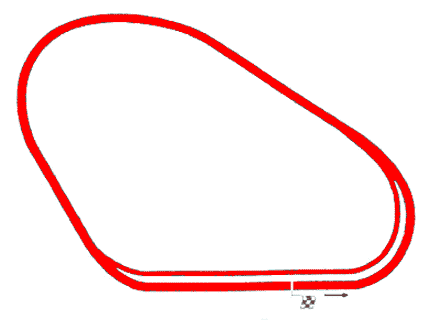 Mapa do Walt Disney World Speedway